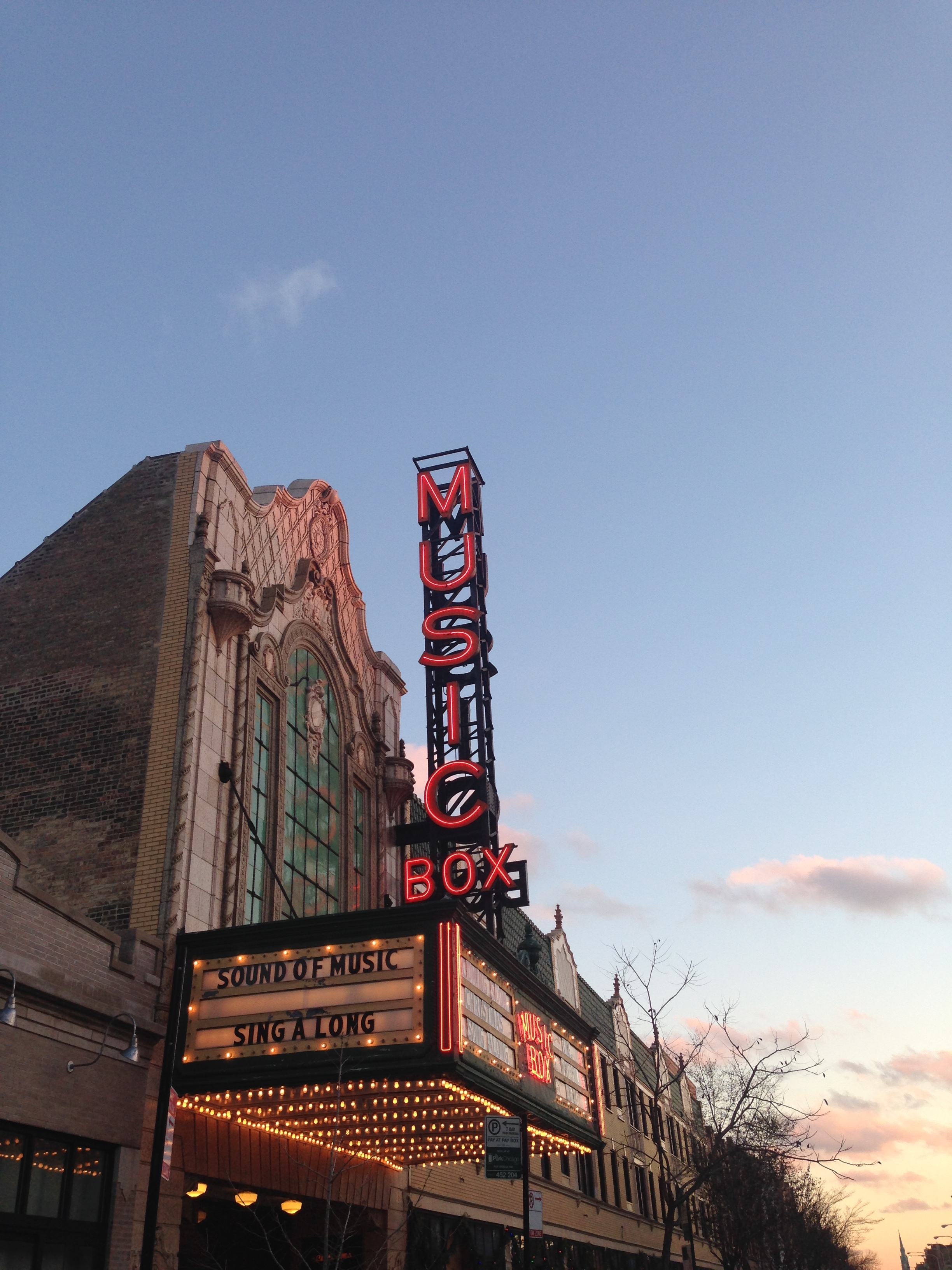 The marquee and facade of the Music Box Theatre in Chicago Illinois. Taken in 2015. Music Box Theatre (Chicago)